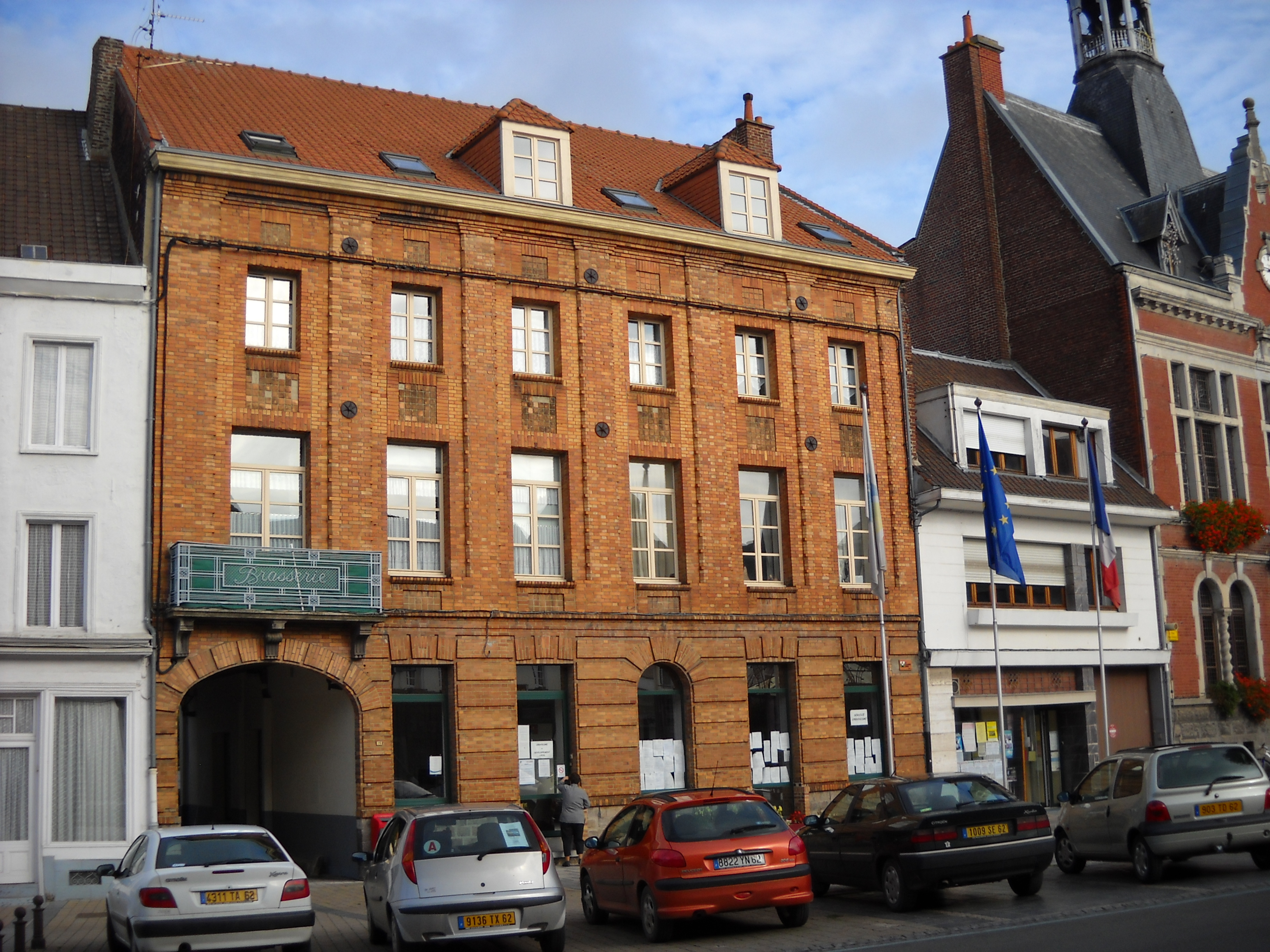 Brasserie-malterie Caboche Laversin, in Lillers, Pas-de-Calais, France.